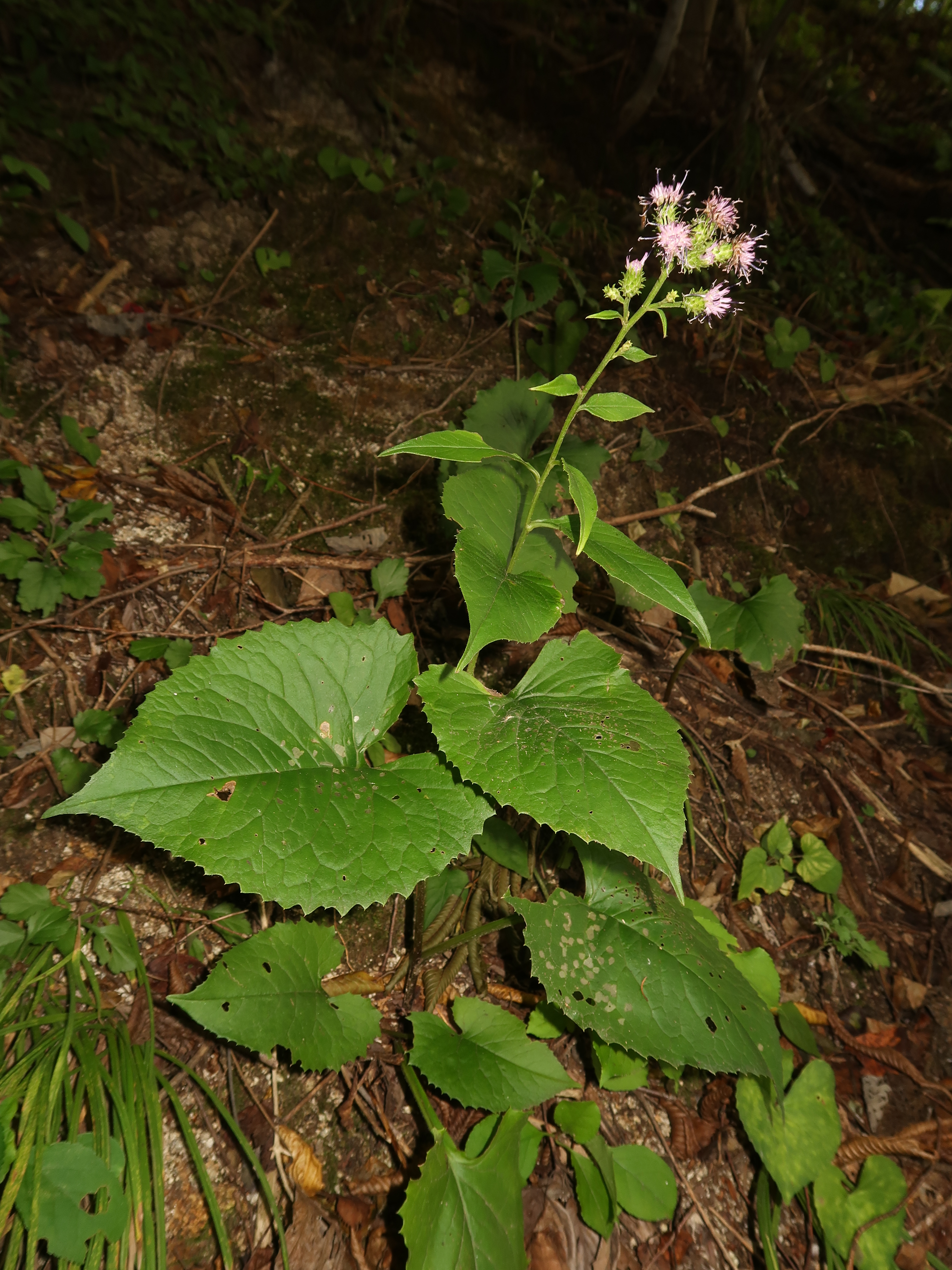 Saussurea sendaica, Naka-dori area, Fukushima pref., Japan